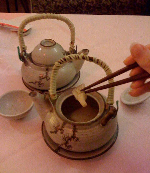 A Japanese broth served in a small teapot.